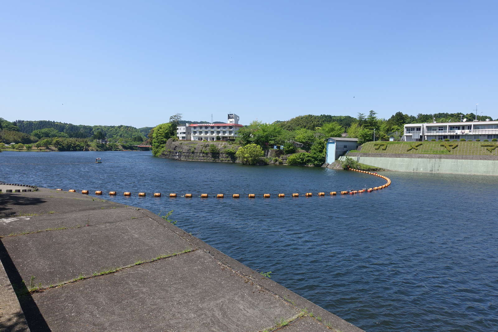 Lake Kameyama